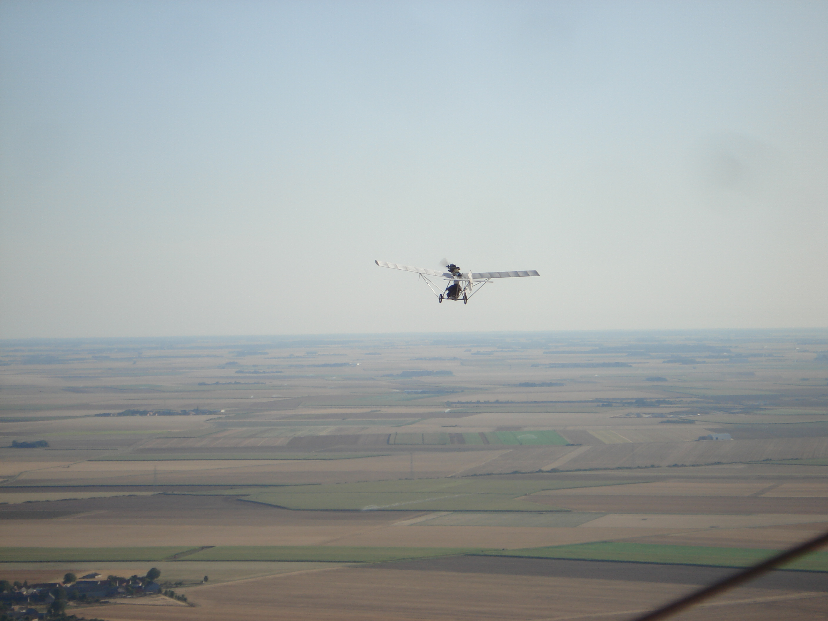 Demoichelle